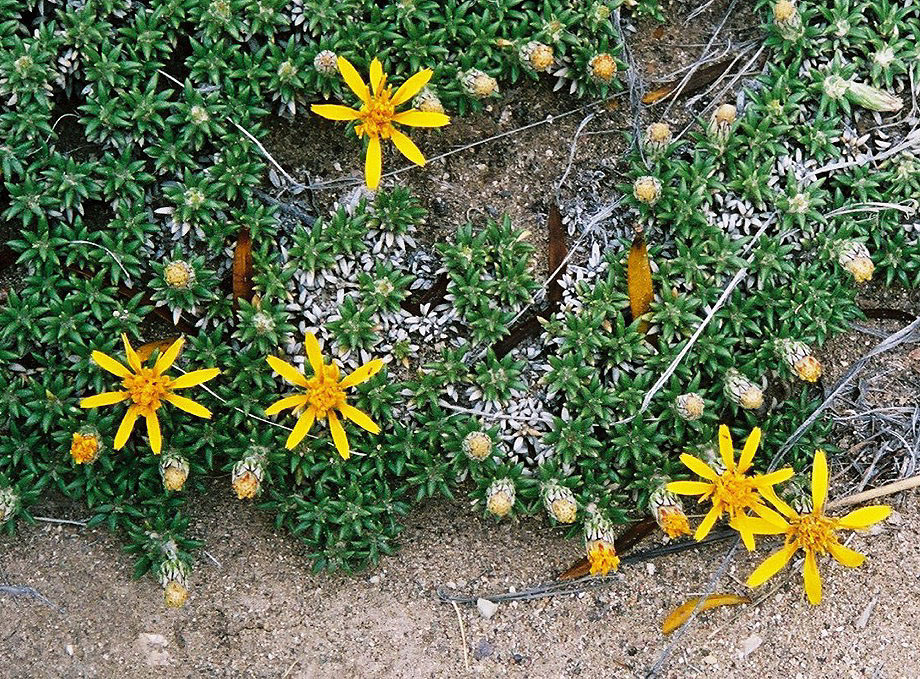 A mat plant from the steppes of Patagonian Argentina. In context at